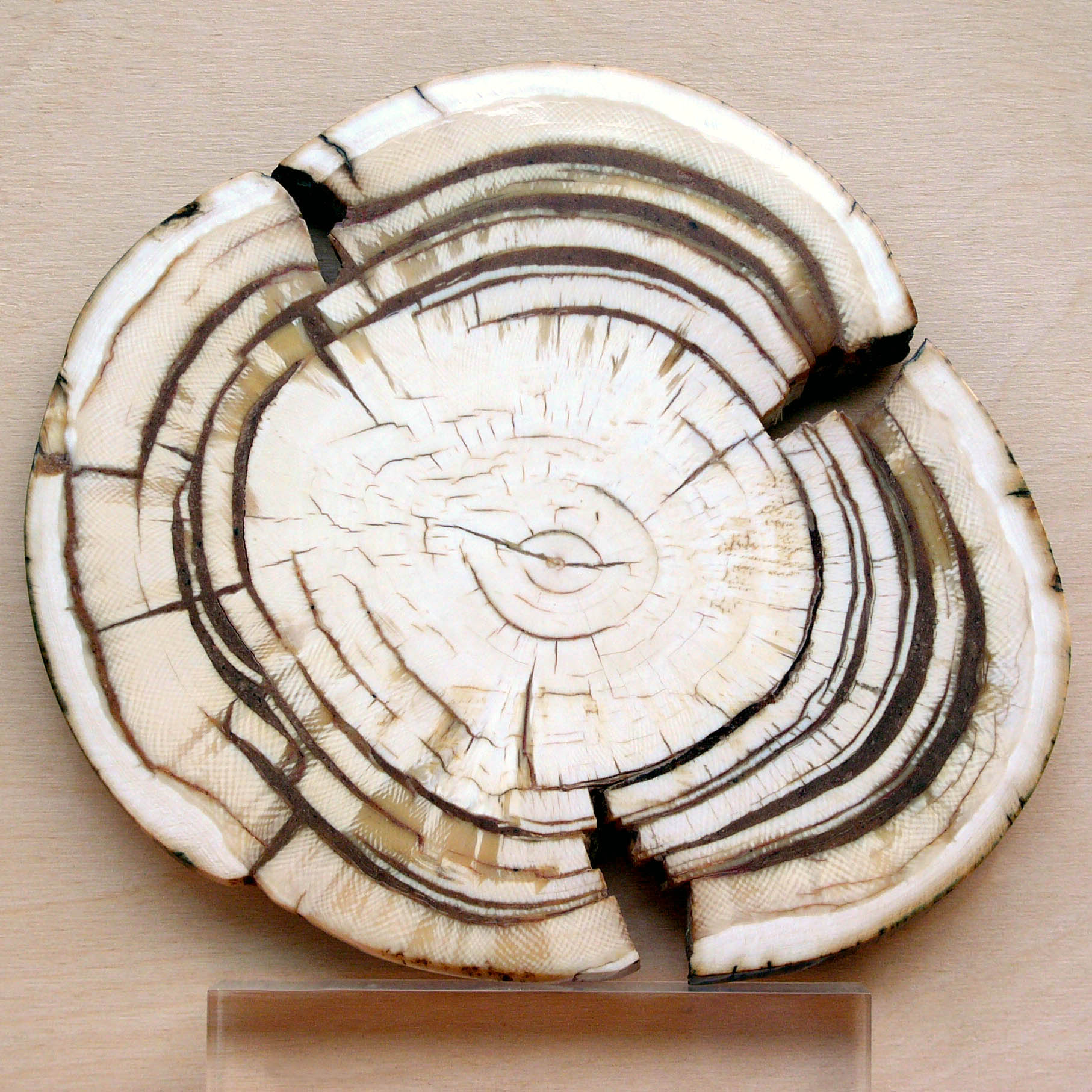 Section through the ivory tooth of a mammoth from Siberia